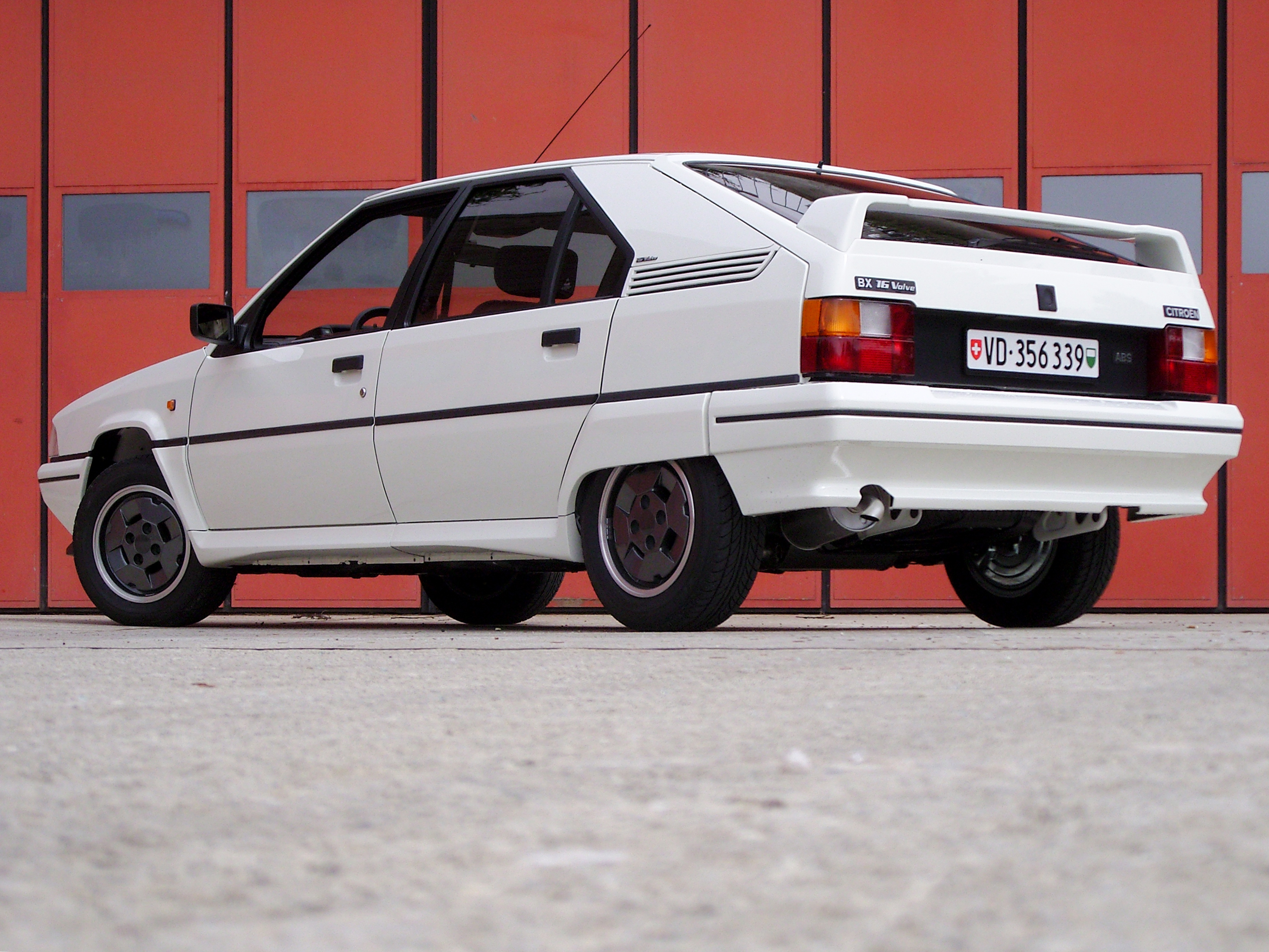 Citroën BX 19 GTI 16 Valve Phase 1 1988 export rebuilt entirely in 2008